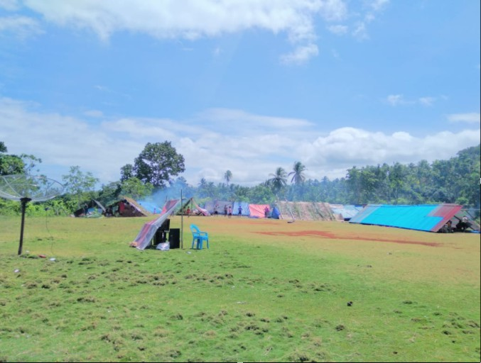 Camps set up by North Maluku's government in Liboba Hijrah Village. More than 3,000 people were displaced after 7.3 magnitude earthquake struck near the island